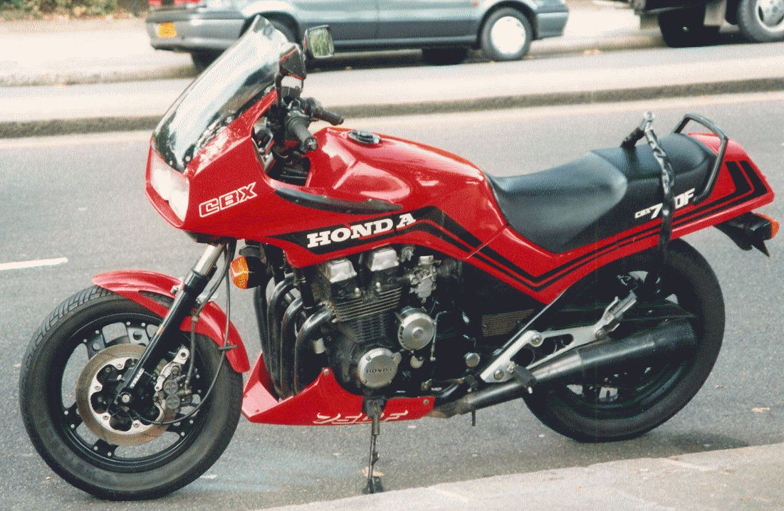 Authir:Das051